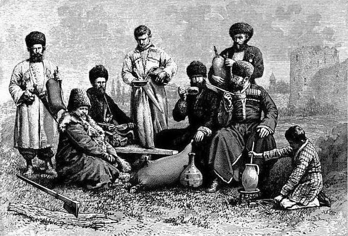 Georgian types and costumes